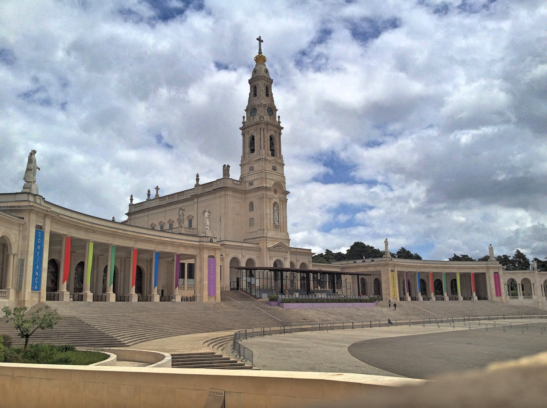 photo